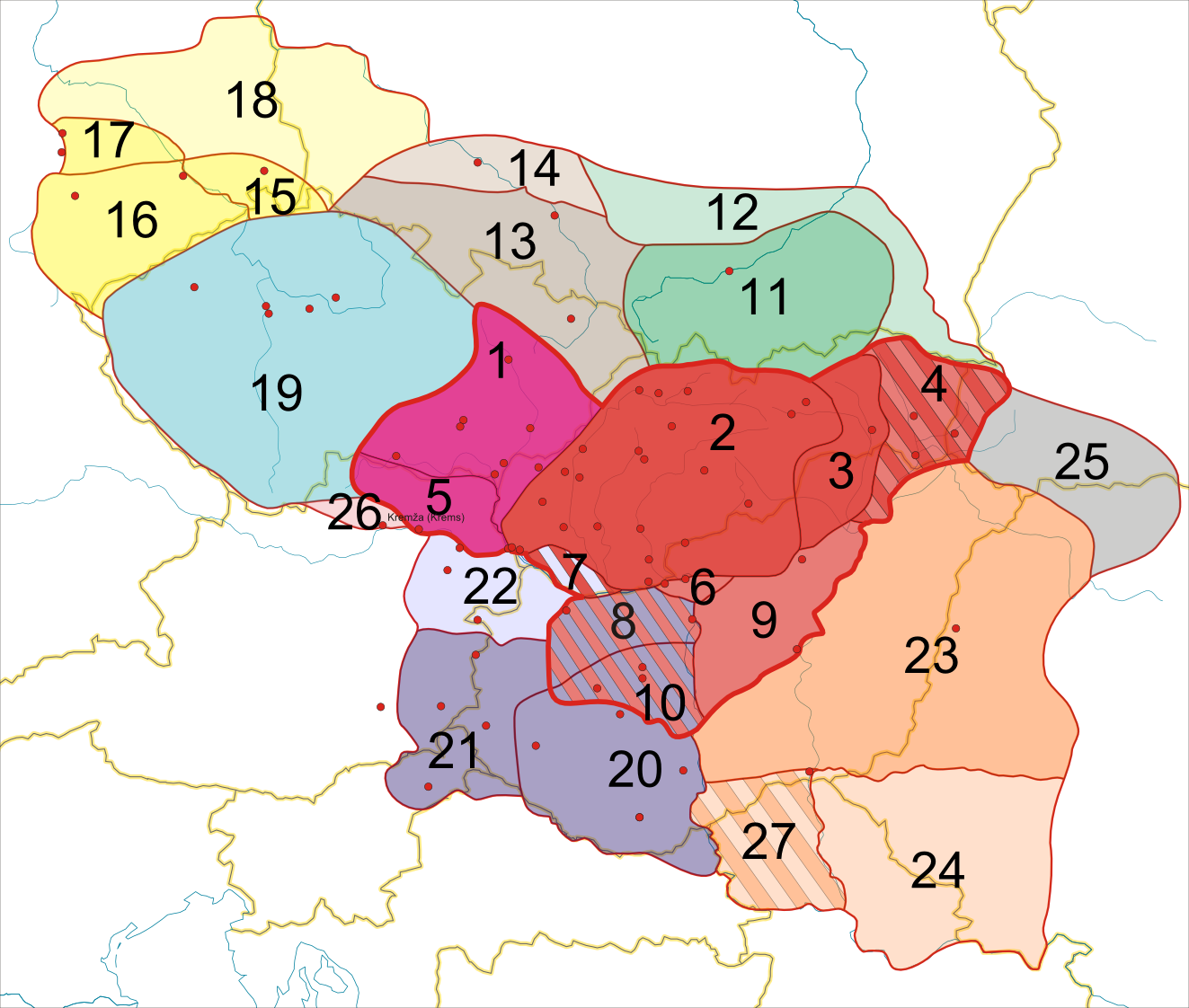 Historical map of Great Moravia